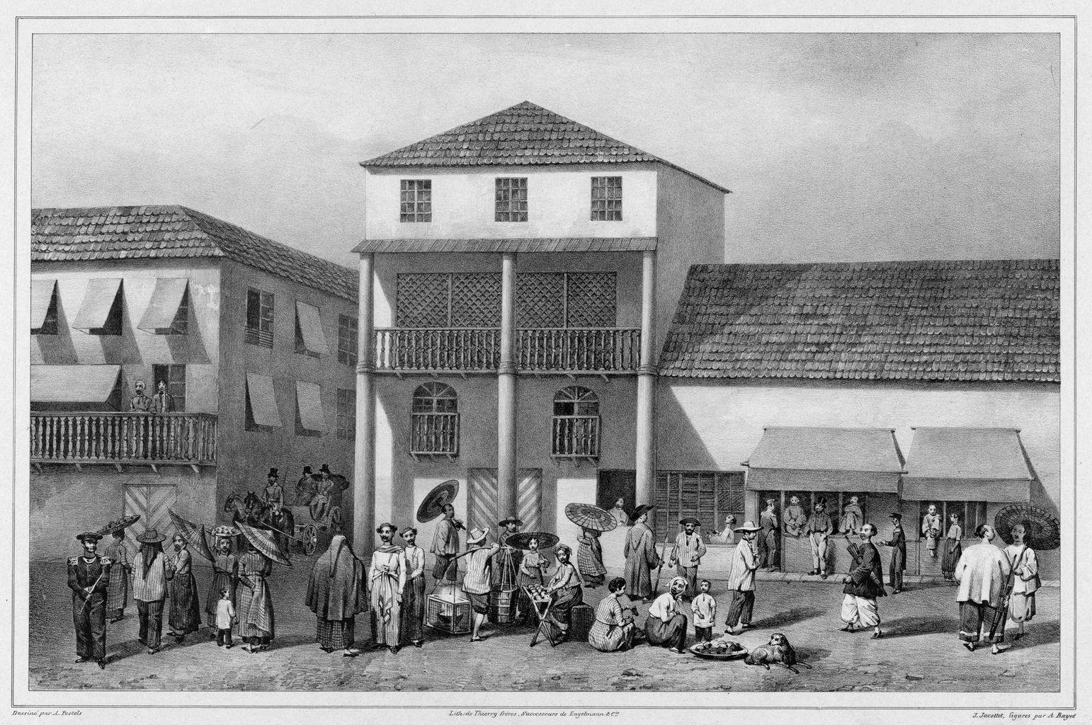 Road in Manila, Capital of Luzon Island, Philippine Islands, 1826-1829 Tagalog: Kalsada sa Maynila, Kabisera ng Isla ng Luzon, Kapuluang Pilipinas, 1826-1829